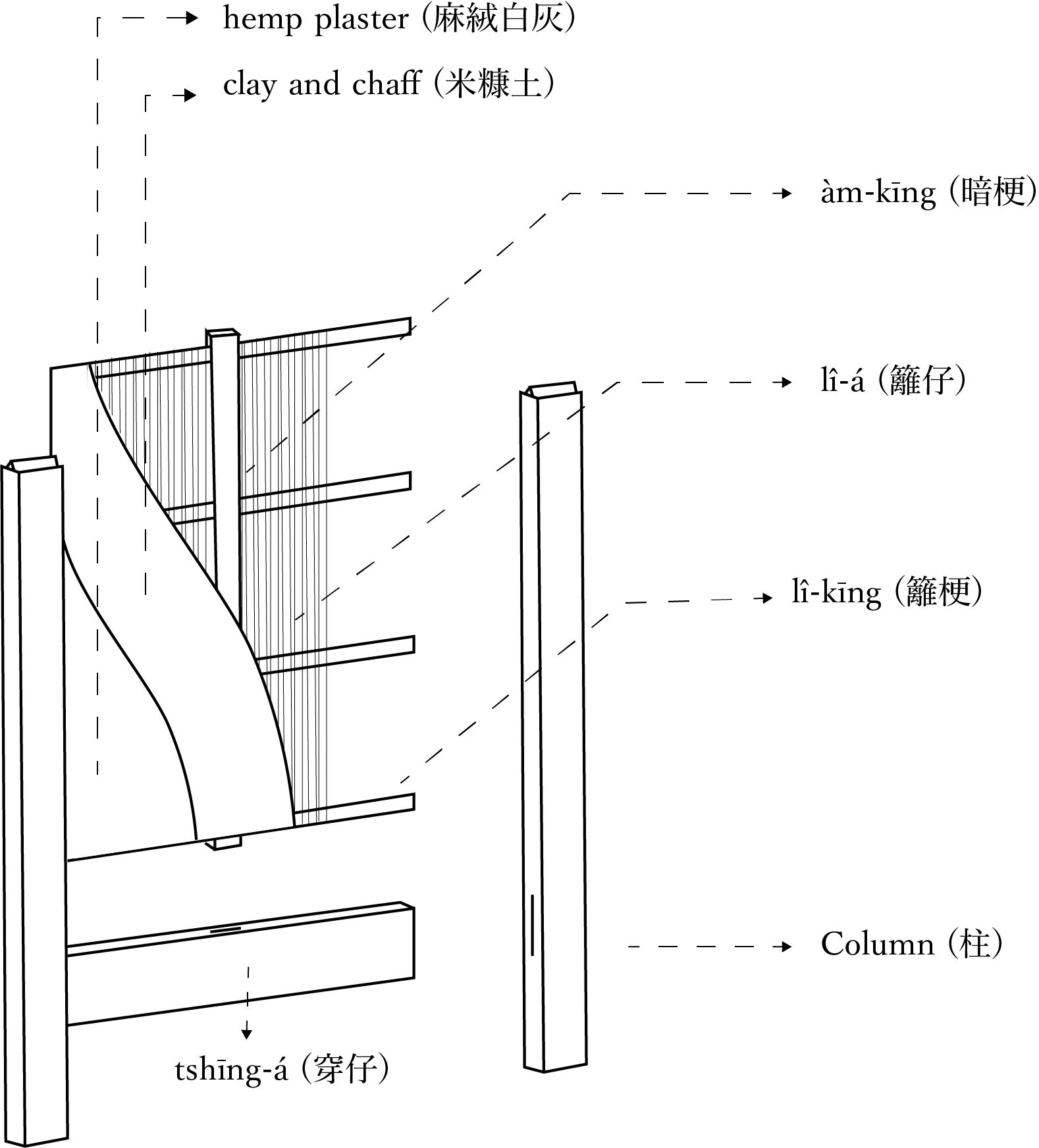 isometric illustration